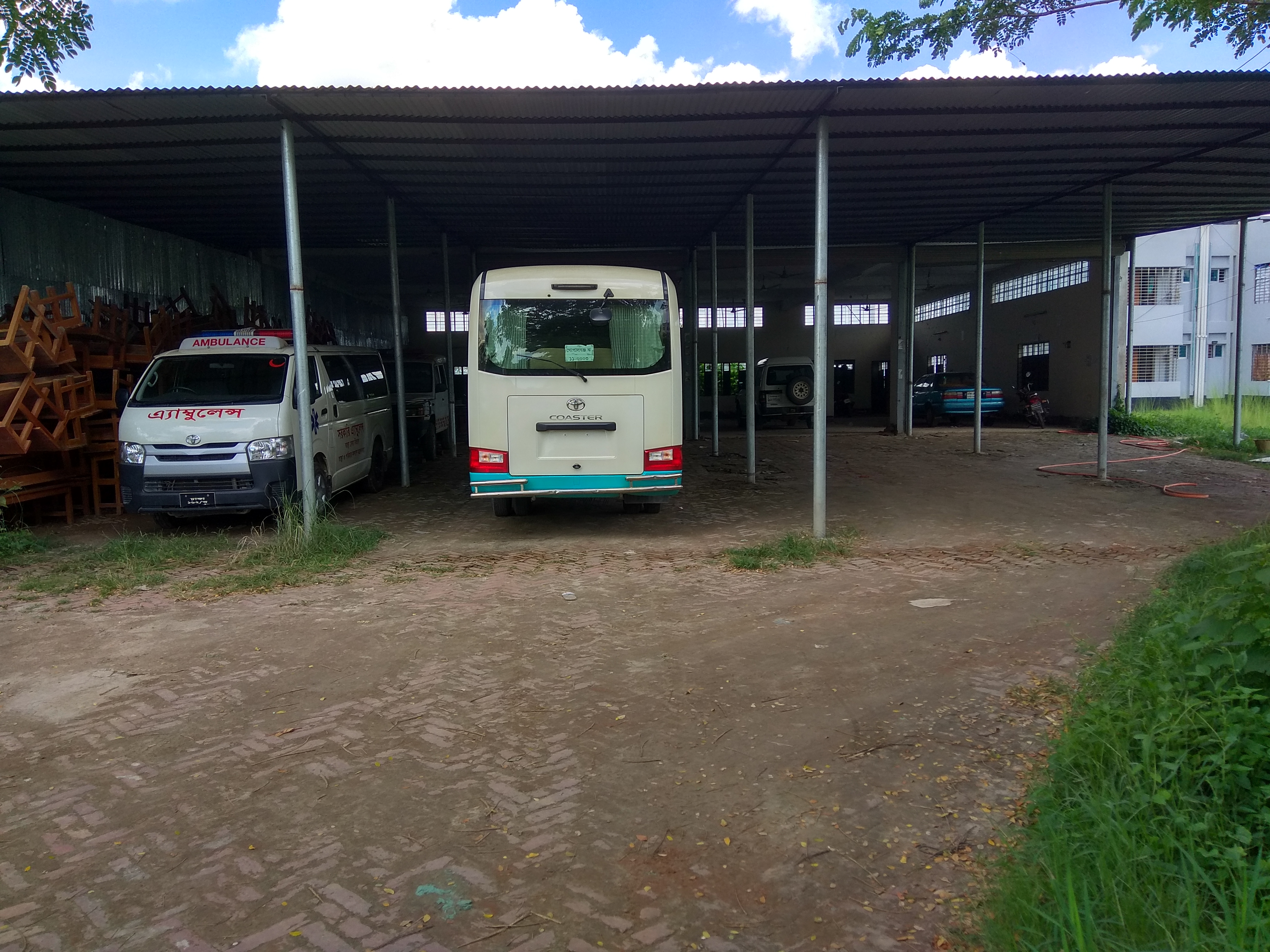 This is the garage where all buses, ambulances, and all official vehicles are kept.